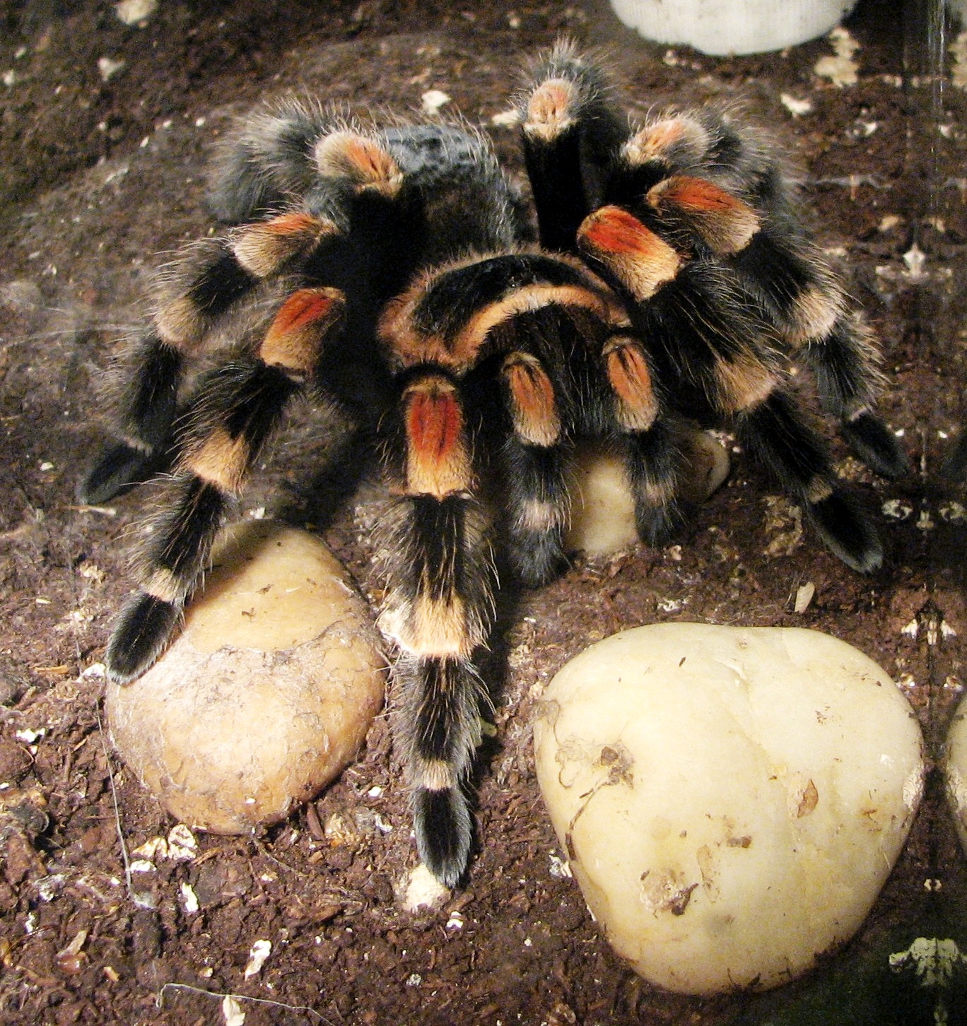 Brachypelma smithi, adult female